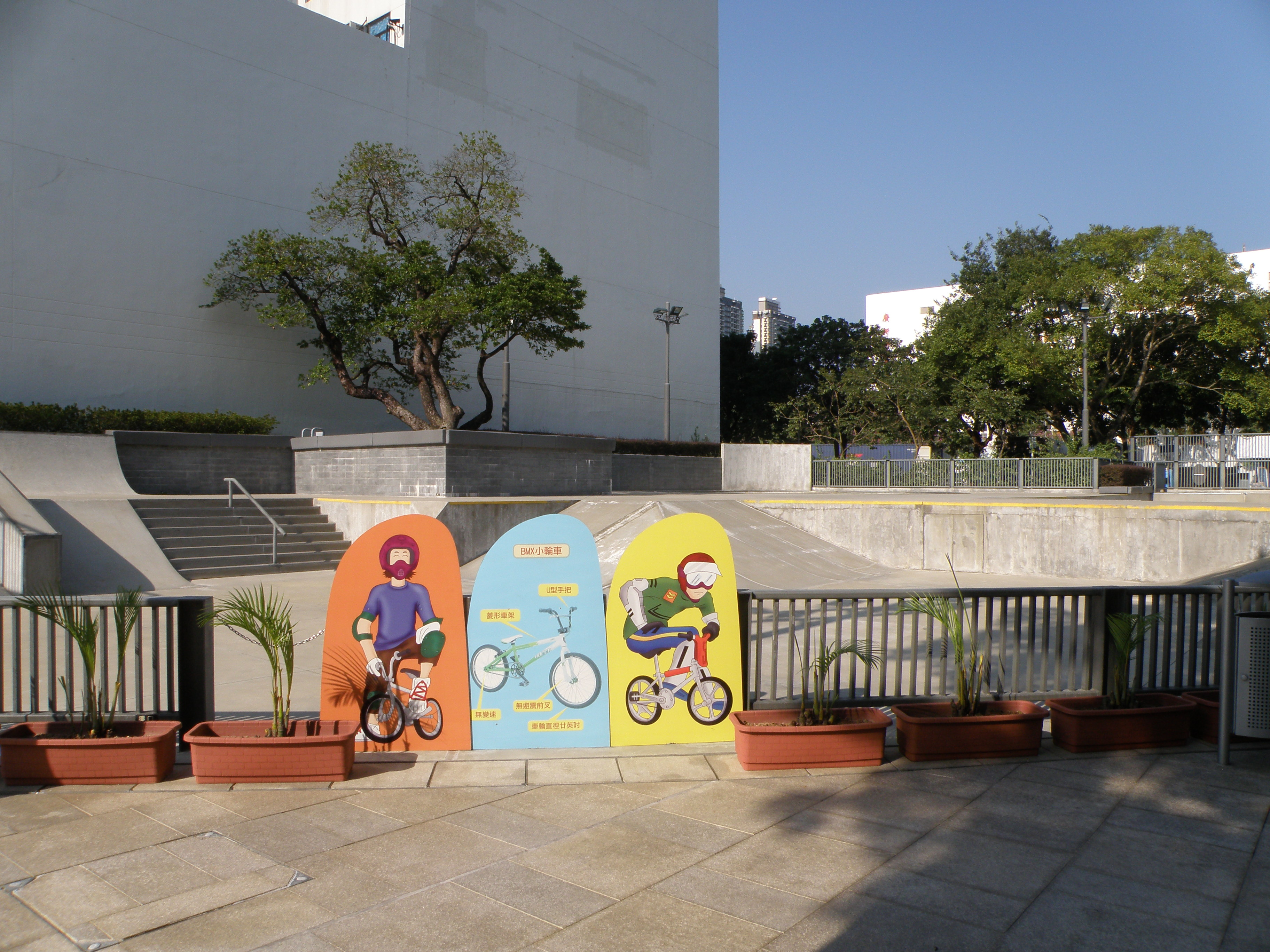 On Fuk Street Playground in Fanling, Hong Kong.